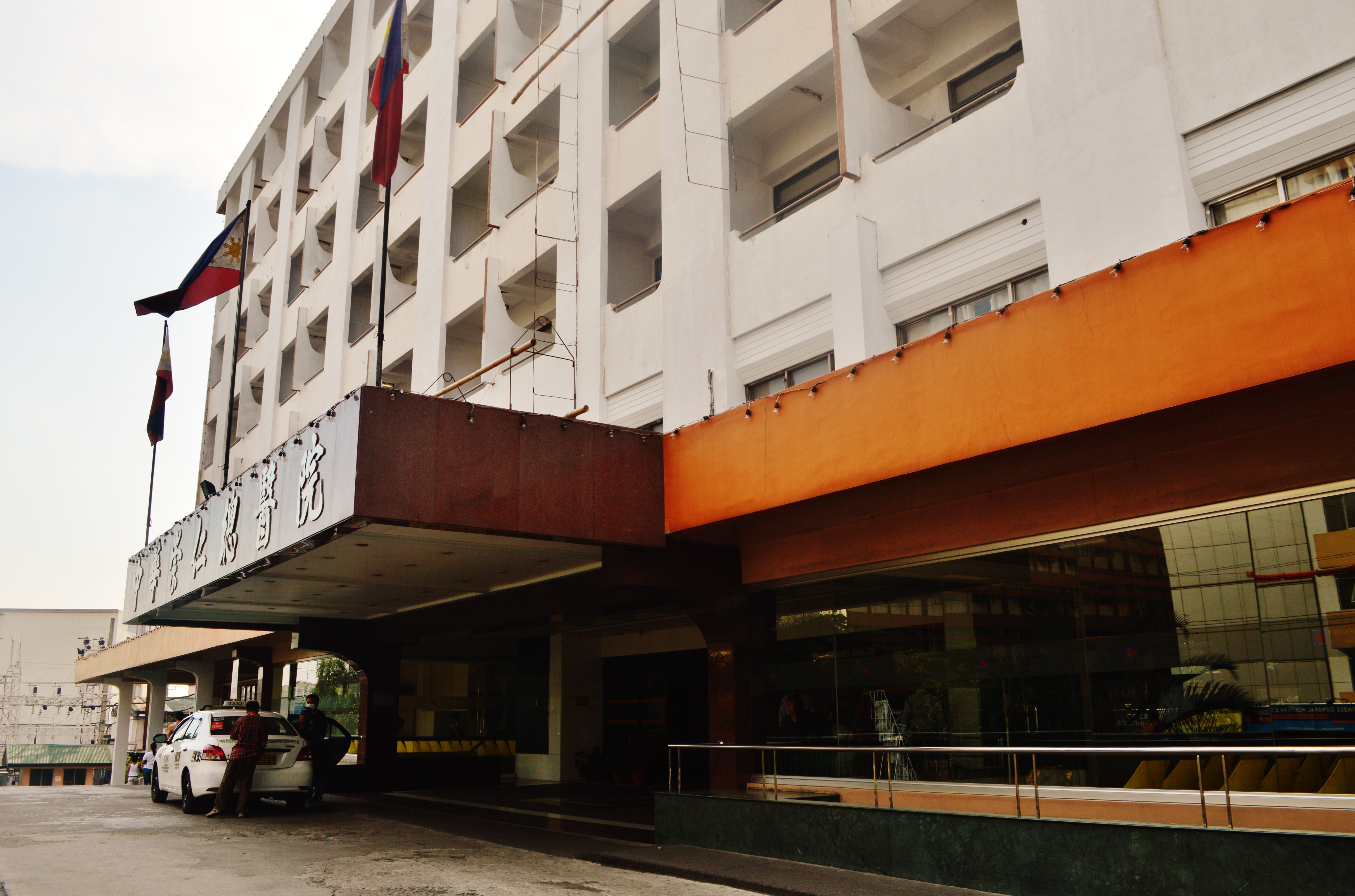 A partial view of the hospital's facade.